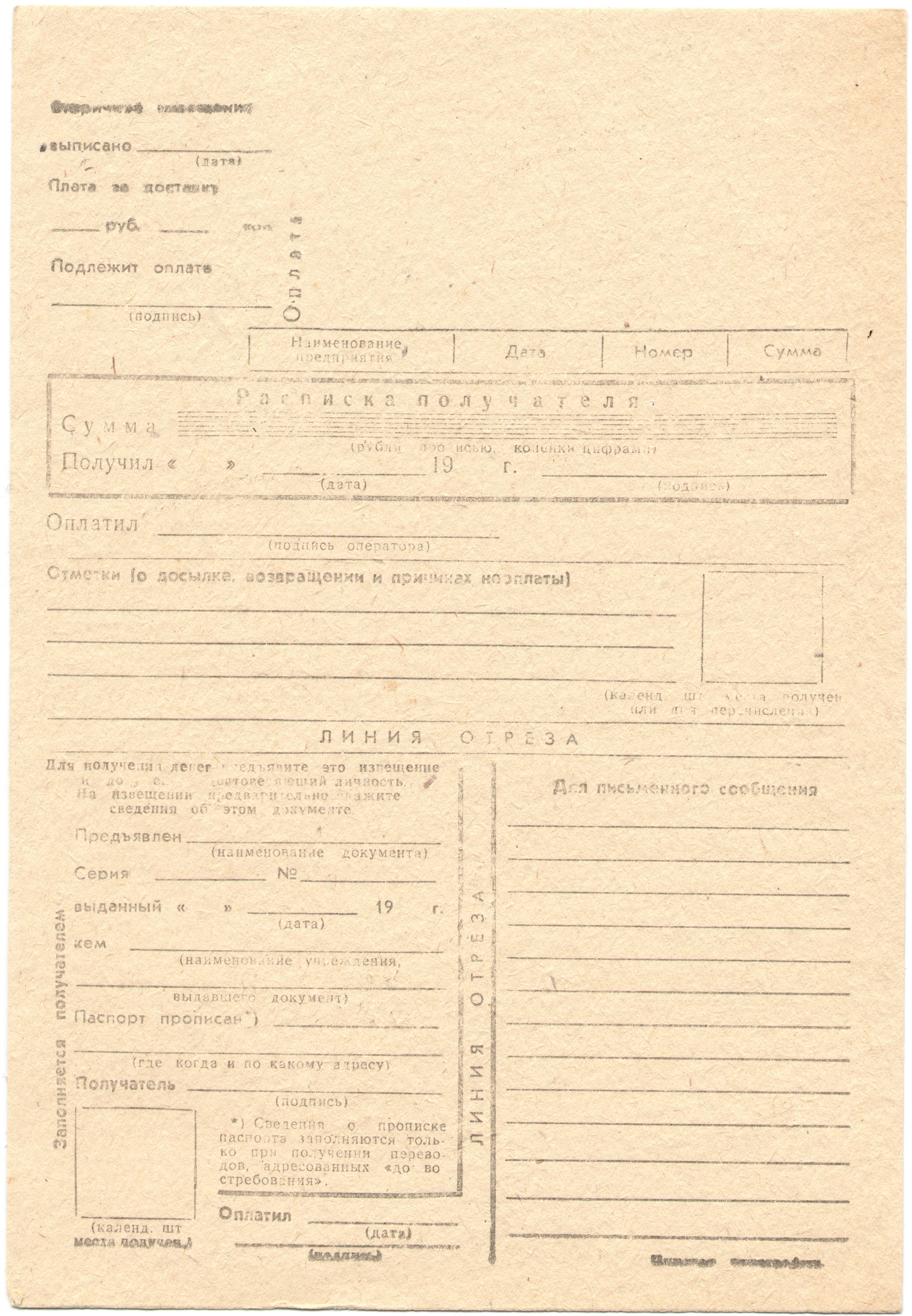 USSR Postal Money Transfer form, Form 112, reverse side, 1990s.